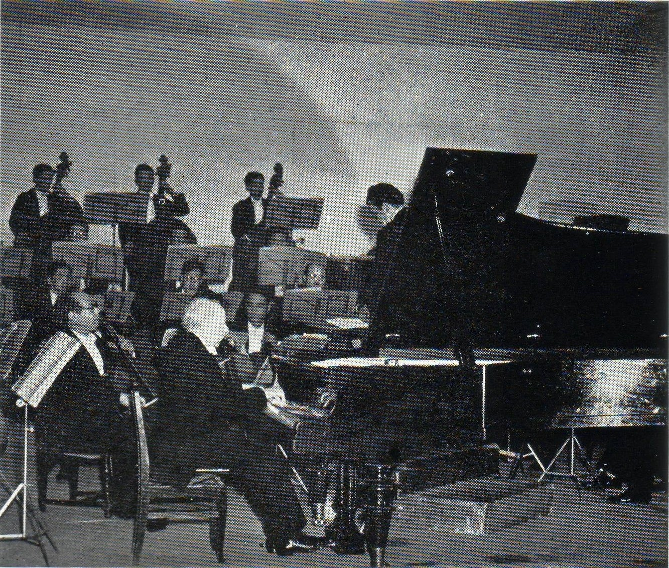 Lazare Lévy with Japan Symphony Orchestra, October 1950.